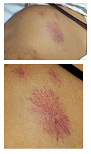 Gigantic cutaneous arterial spiders - This 47-year-old patient had longstanding jaundice and ascites consequent to biopsy-proven hepatic cirrhosis.